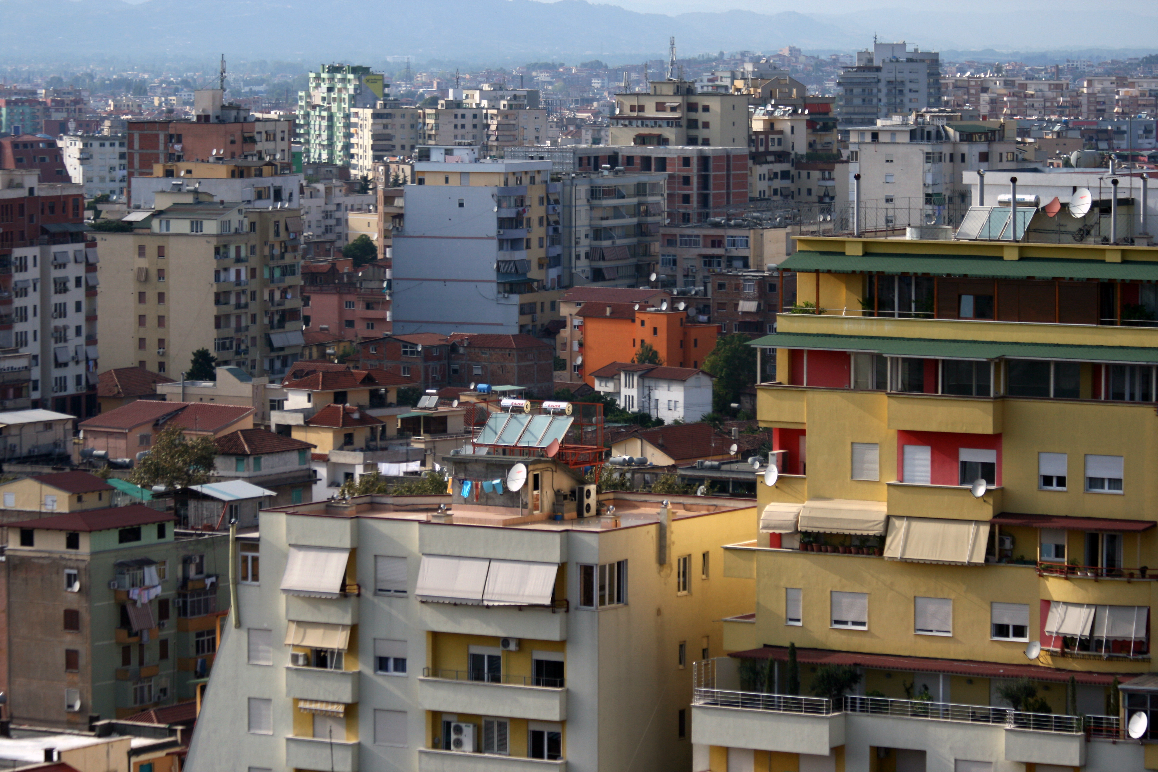 Overview Tirana